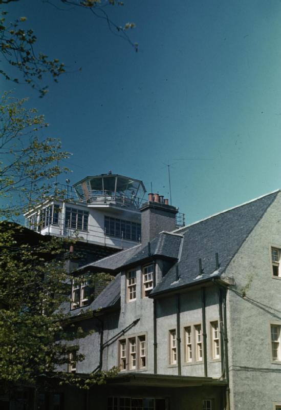 Prestwick Airfield, Scotland, 1944 The control tower and administration buildings.